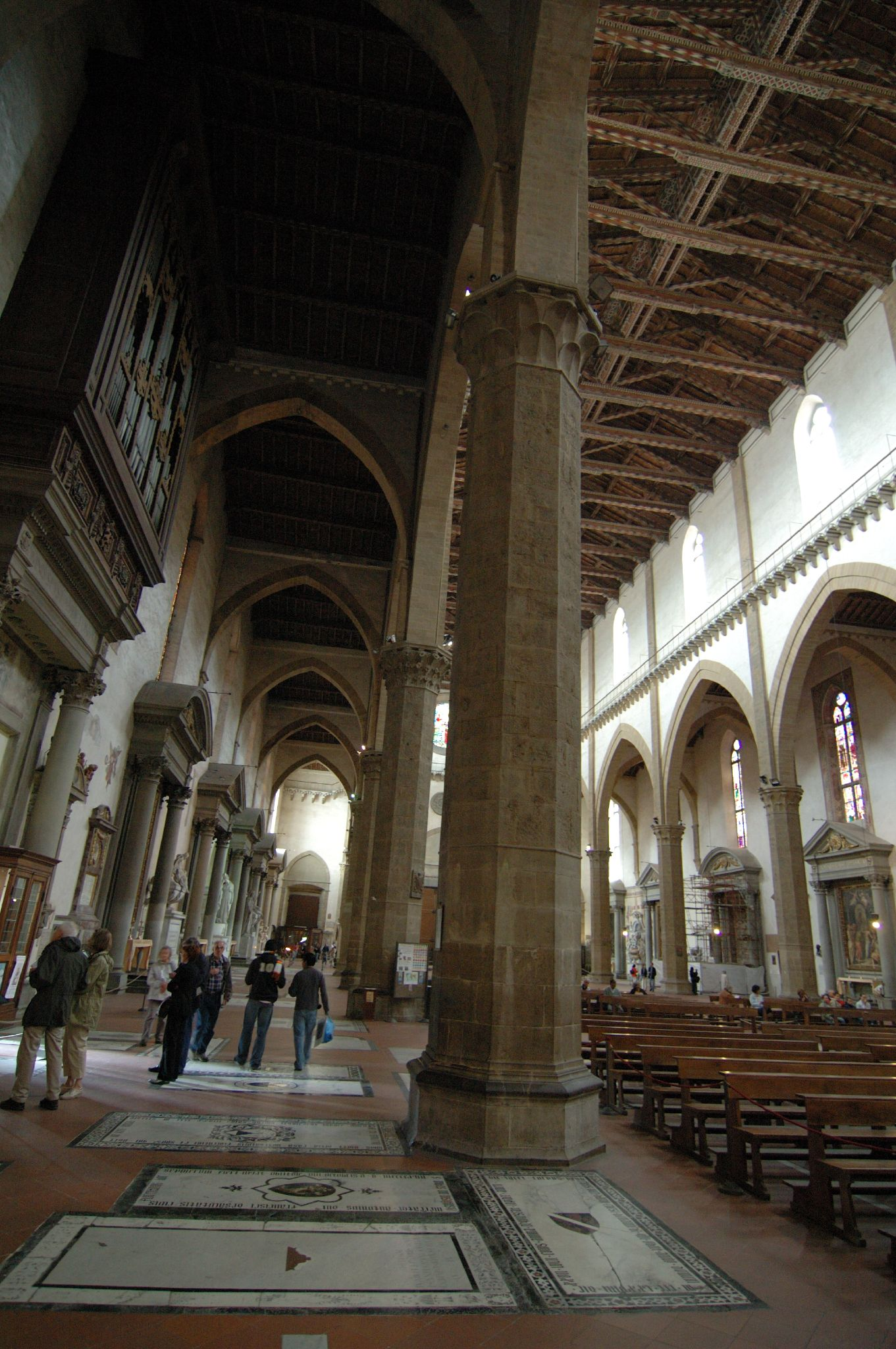 see above